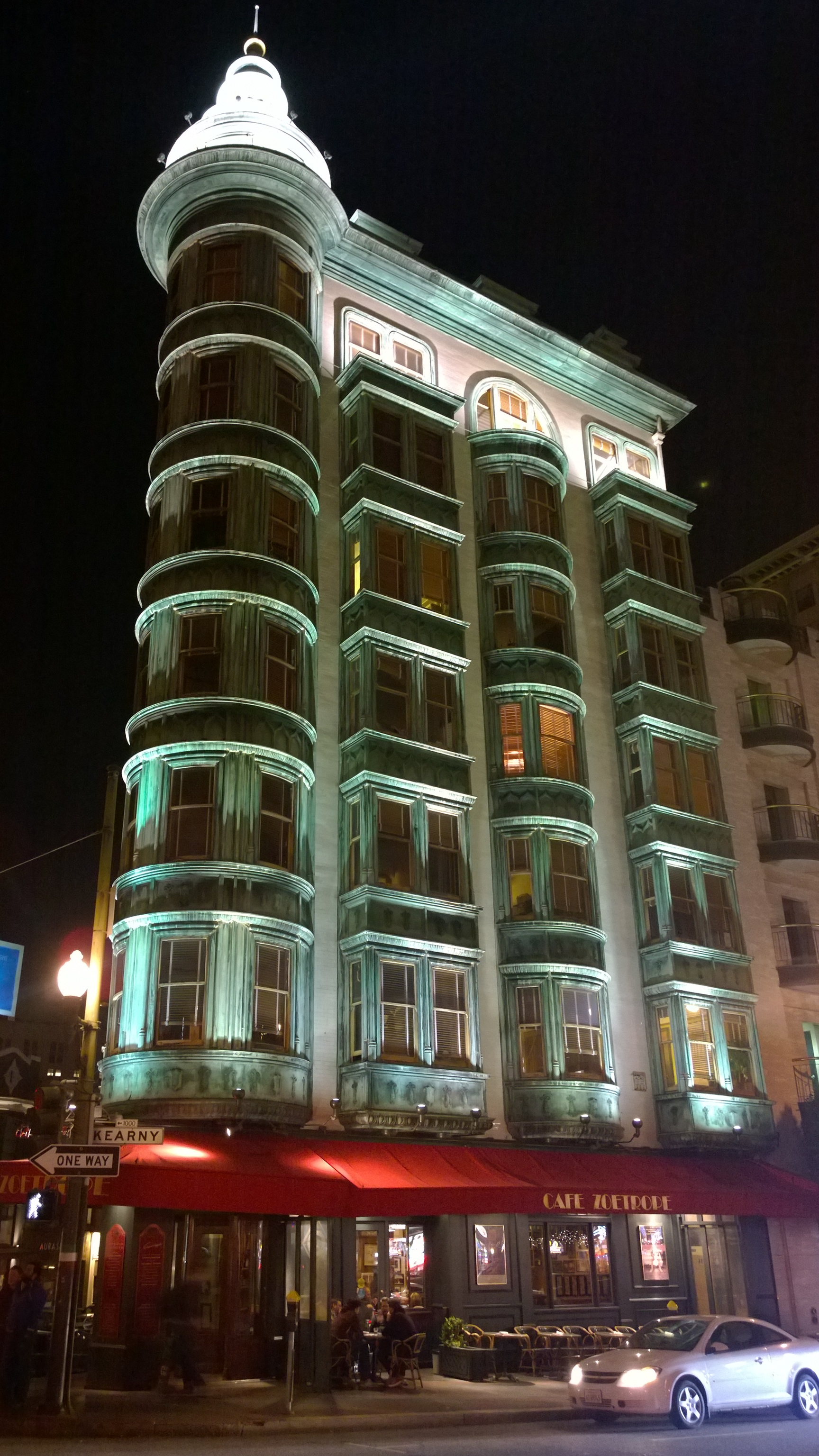 Columbus Tower (also Sentinel Building) in San Fancisco. Home of Francis Ford Coppola's American Zoetrope studio